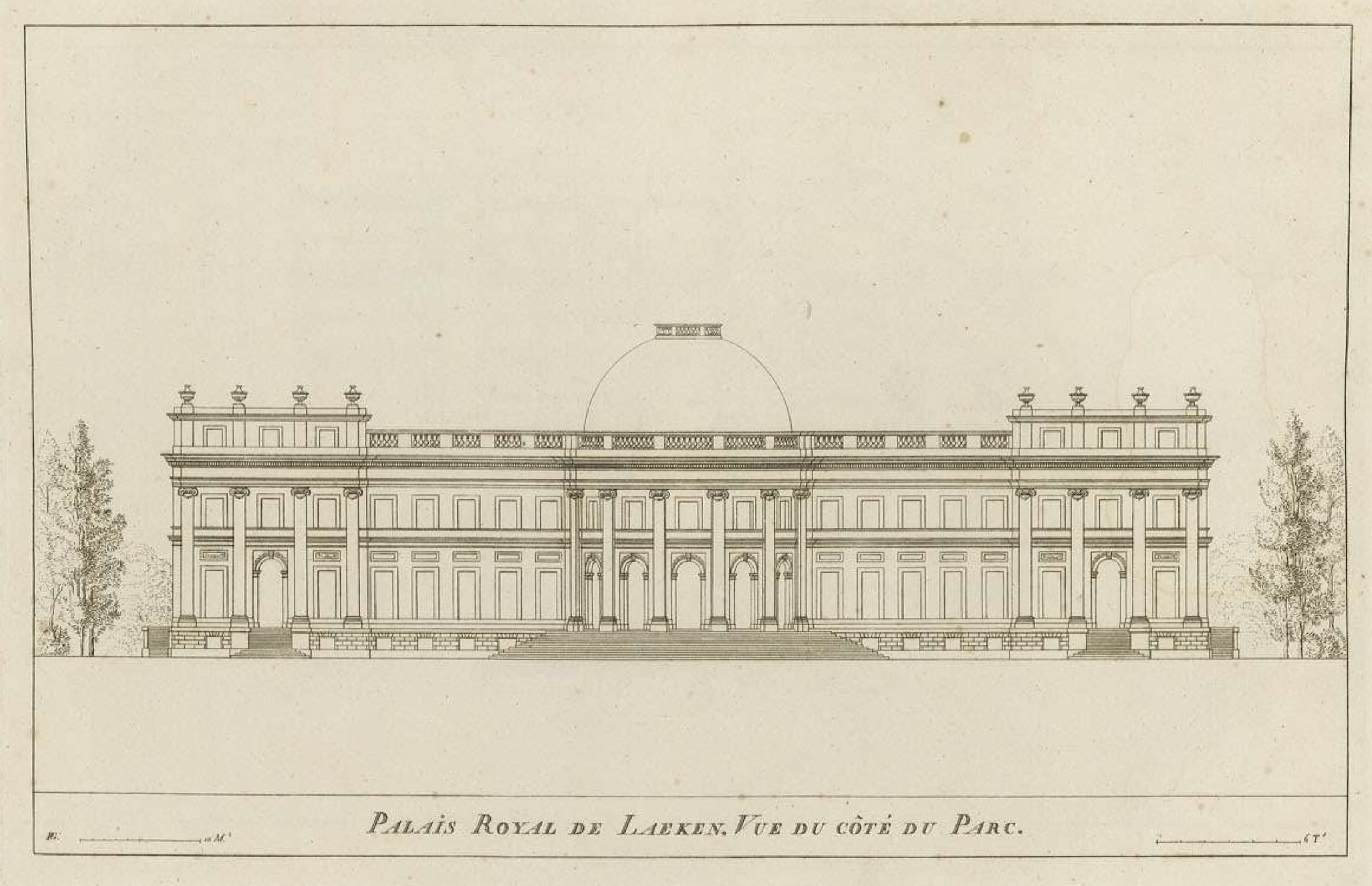 Pierre-Jacques Goetghebuer (1788-1866) became professor of architecture in Ghent, after his studies for architectural drawing at the local art academy. From 1817 he started working on a publication with images of the most remarkable buildings from the newly created United Kingdom of the Netherlands. This book would include both old and contemporary, neoclassicist buildings. Most of the 120 plates depict buildings from the Southern Netherlands, especially Brussels and Ghent. Goetghebuer executed the engravings based upon his own sketches or designs by the architects themselves. Other artists finished the engravings in aquatint. Goetghebuer published this collection of engravings in 1827 with publisher André Benoît II Steven, and he dedicated them to King William I. Many buildings in this book have since disappeared, hence its significant historical importance. Also published in Dutch, with the title Verzameling der merkwaardigste gebouwen in het Koningrijk der Nederlanden.